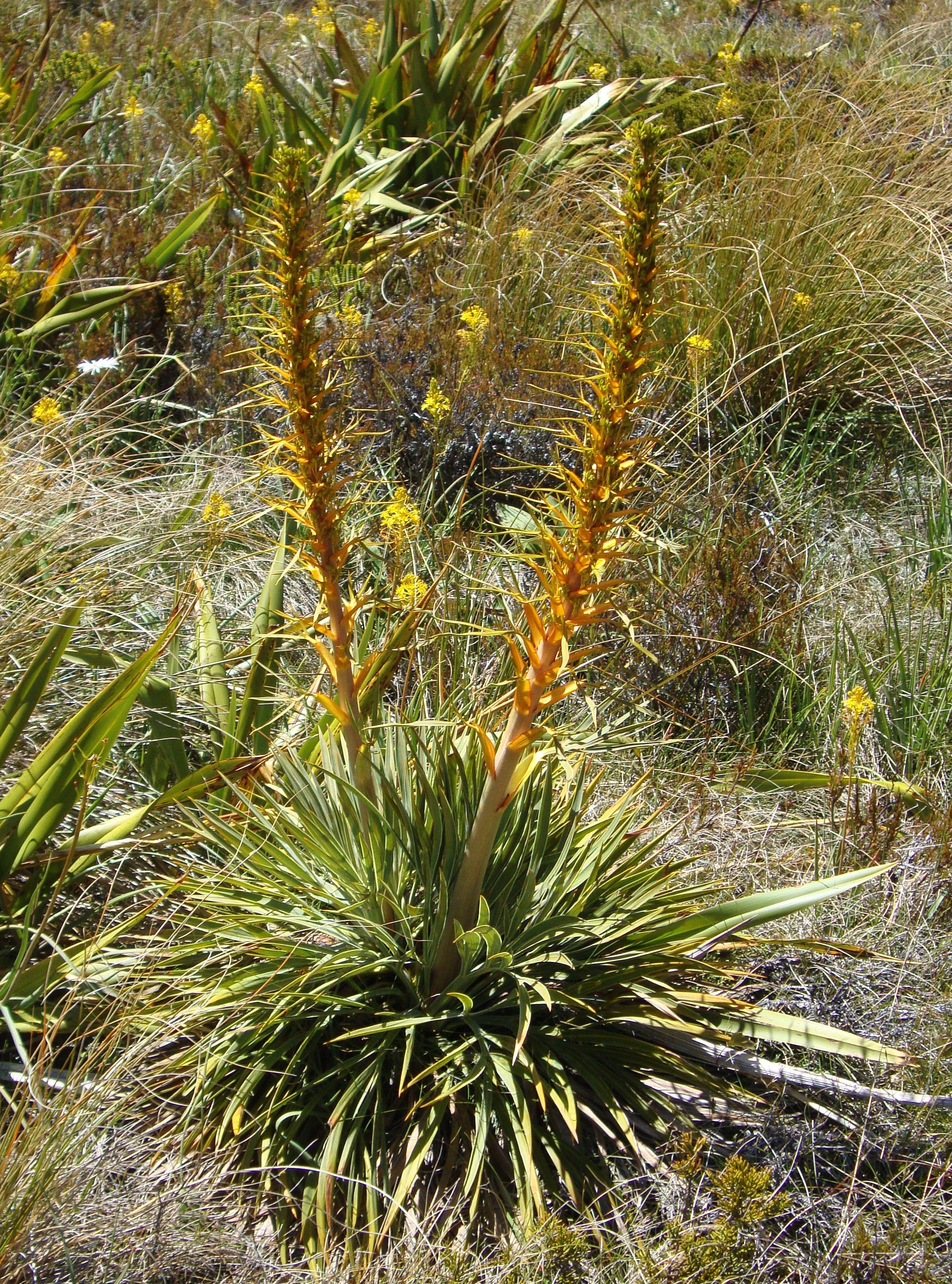 Spaniard (speargrass) amidst Maori onion near Round Lake, Kahurangi National Park.